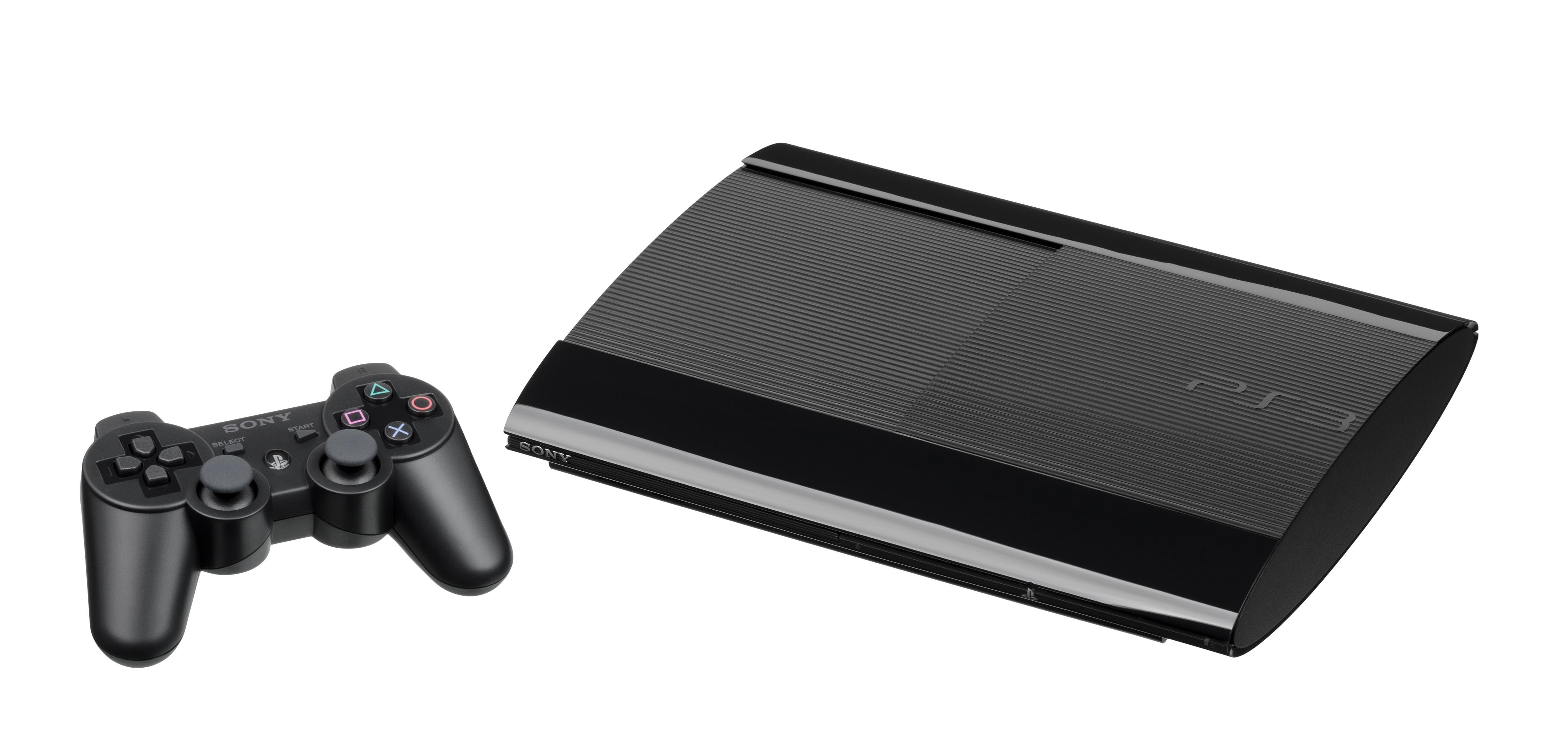 The Sony PlayStation 3 (PS3) video game console, shown with DualShock 3 controller. This is a seventh generation console first released in 2006 as the successor to the PlayStation 2. This model is the CECH-4001B, one of the last models released. Called the "Super Slim", it features a 250GB hard drive and a drop-in Blu-Ray drive with sliding door.